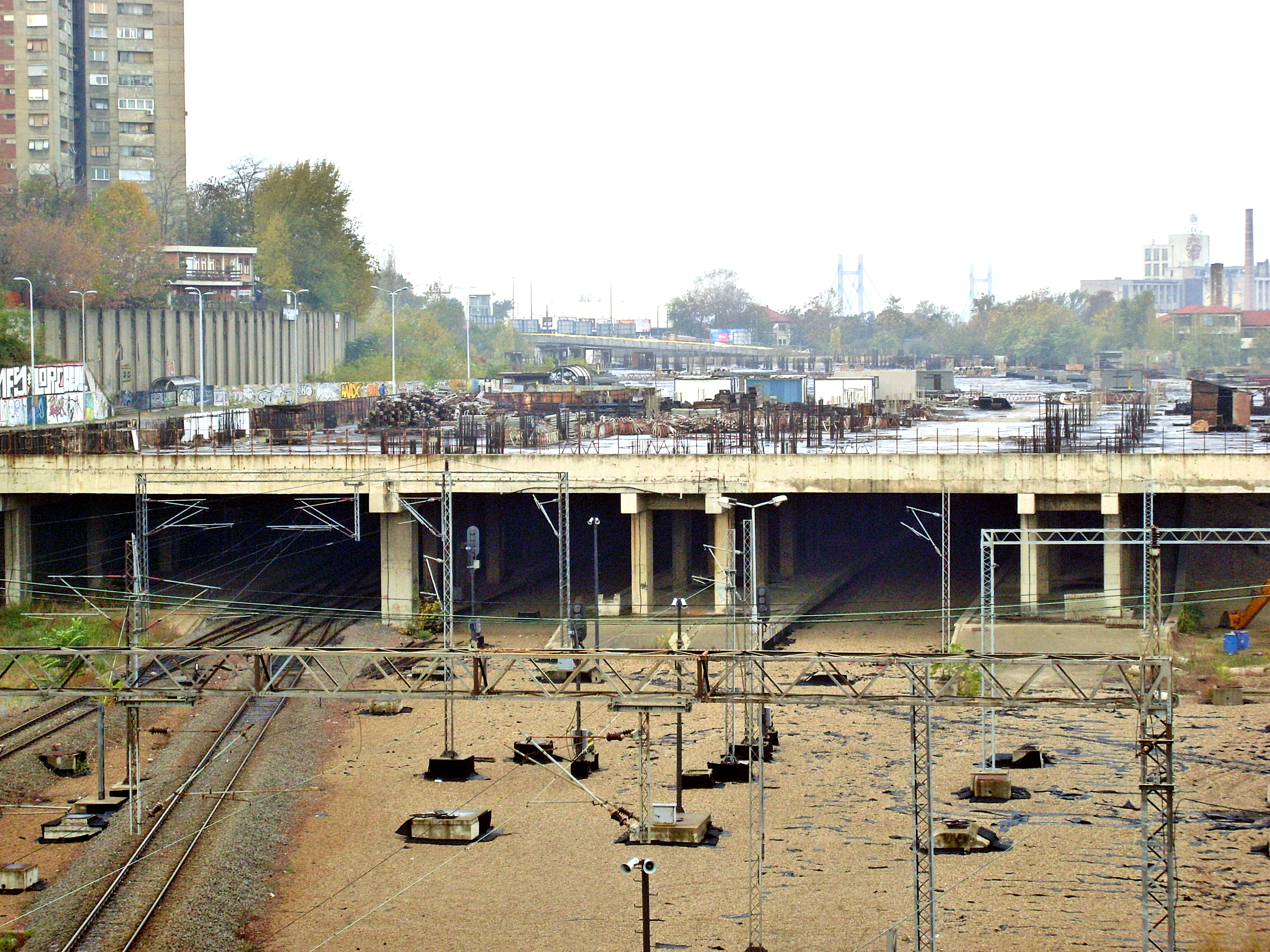 East view of Prokop the Belgrade main railway station currently under construction